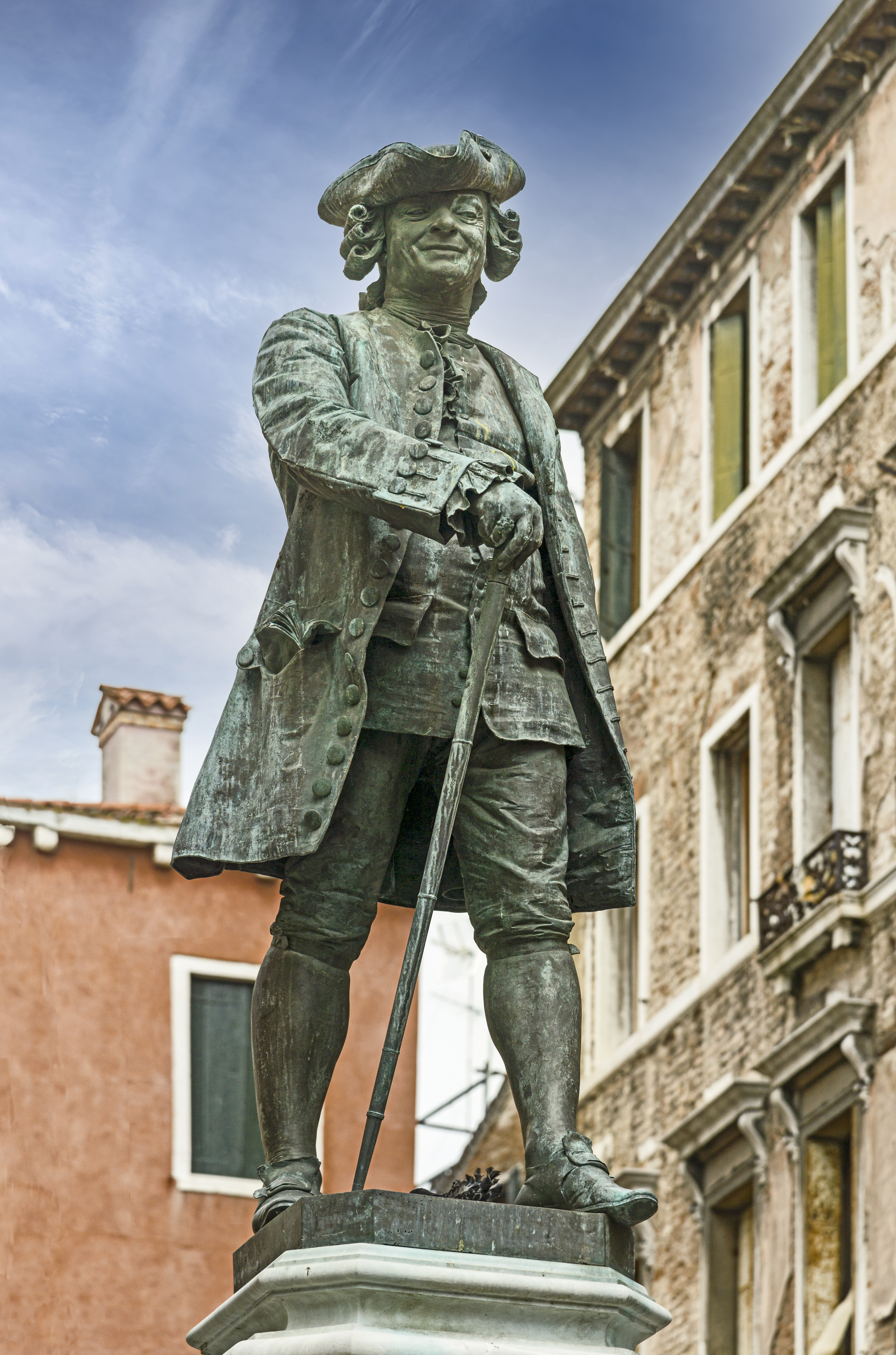 Monument to Carlo Goldoni, Campo san Bartolomeo Venice by Antonio Dal Zotto (1883).